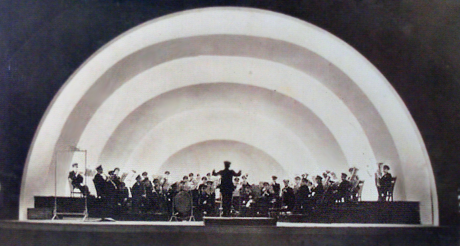 Former City Band of Porto Alegre in concert, Auditório Araújo Viana. Unknown author. Joaquim Felizardo Museum, Porto Alegre.